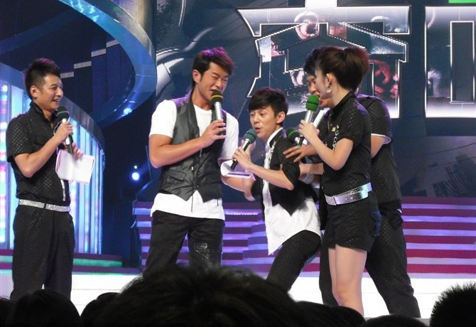 Happy Camp is a Chinese variety show produced by Hunan Broadcasting System. The series debuted in 1997, and has remained in production since then due to its popularity. The show was hosted by the Happy Family: He Jiong, Li Weijia, Xie Na, and Wu Xin.中文（中国大陆）: 2009年7月，何炅、李维嘉、谢娜、吴昕主持的《快乐大本营》，嘉宾是古天乐。